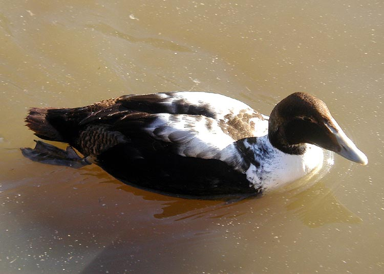 Male juvenile Common Eider in “first winter” plumage, at Slimbridge Wildfowl and Wetlands Centre, Gloucestershire, England. This bird has been identified for me by the Slimbridge staff.